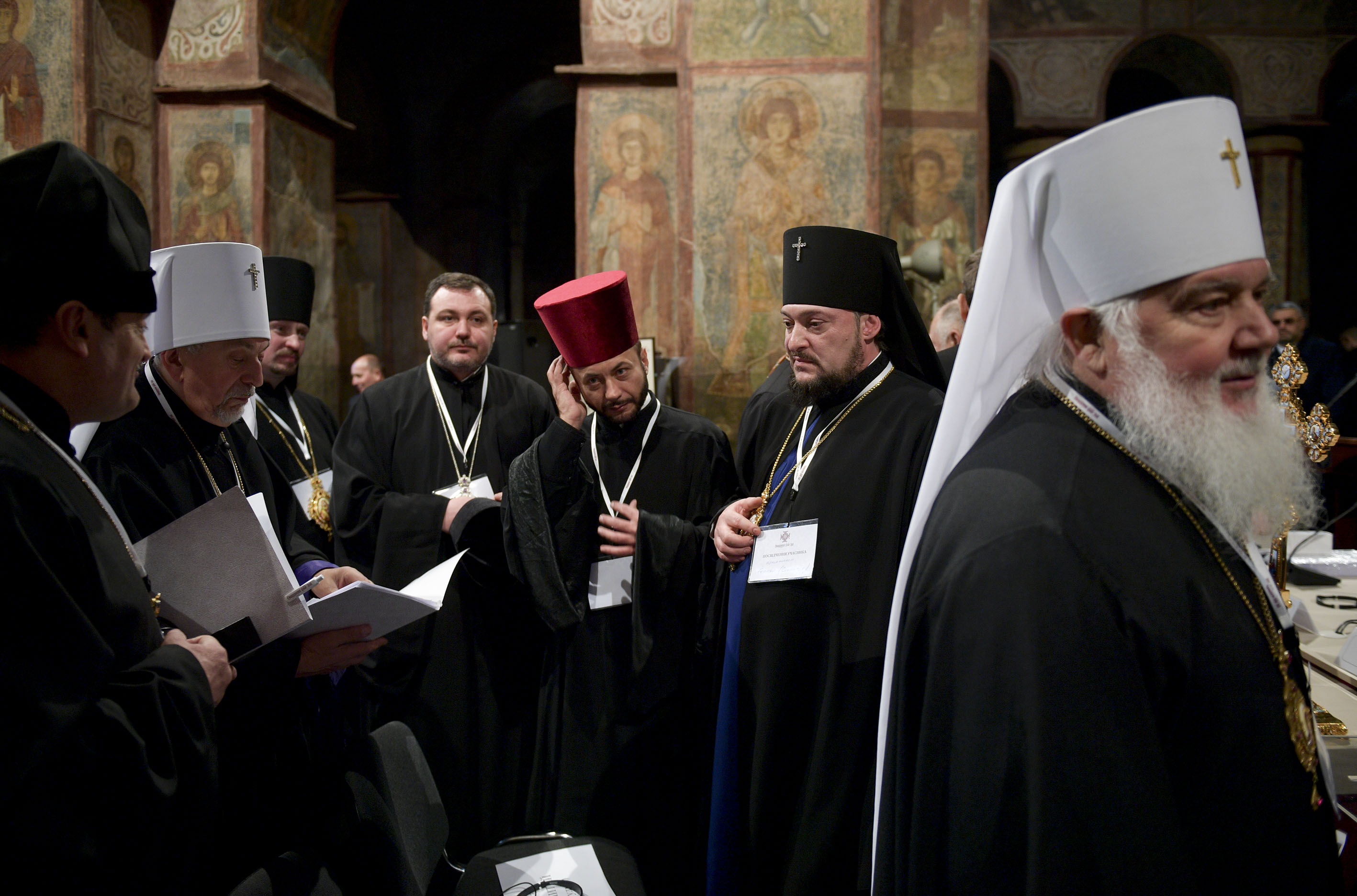 Unification council of Orthodox Church in Ukraine